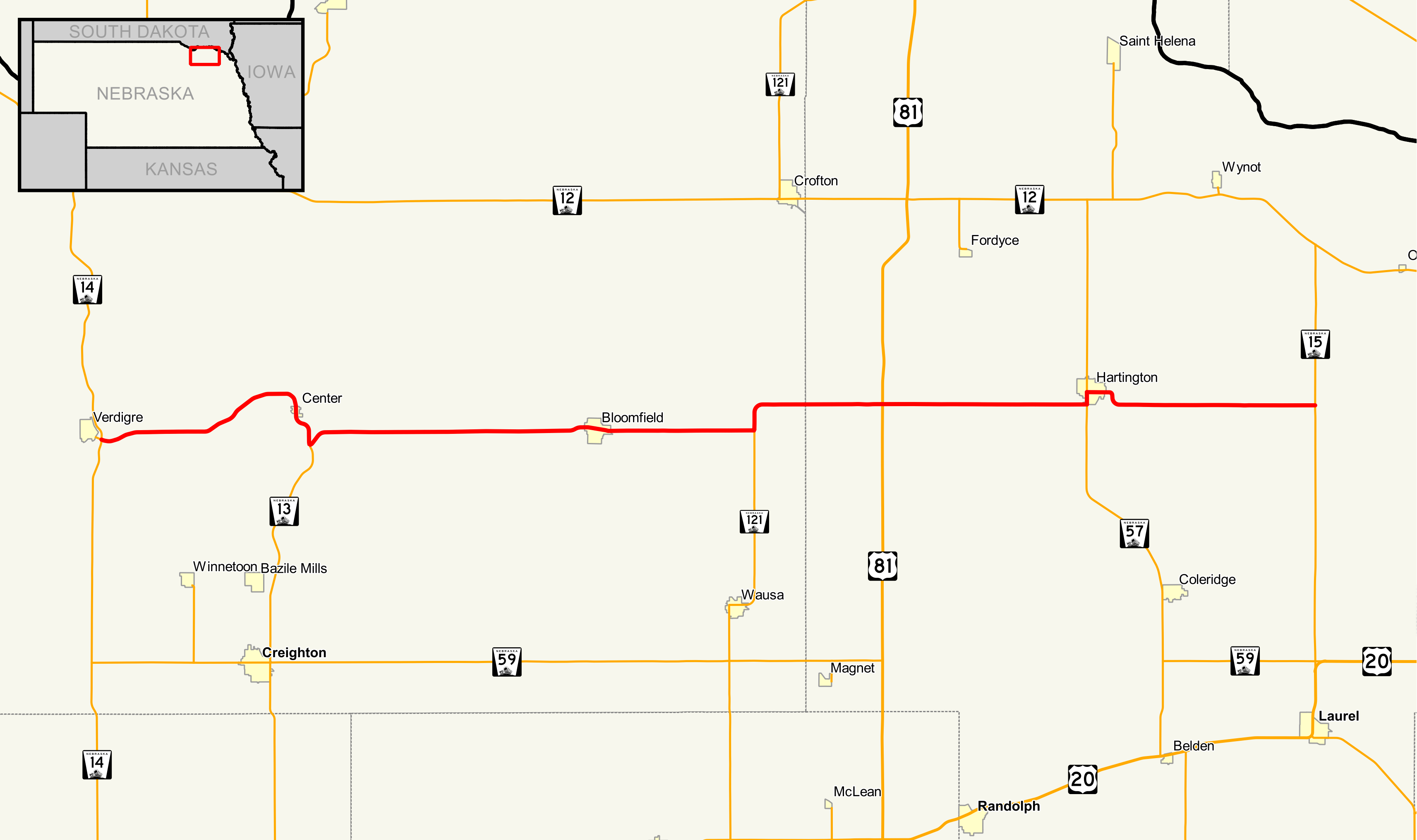 Map of Nebraska Highway 84 Data Sources: Nebraska Highways - - Dec 2016 Nebraska County Boundaries - - Dec 2016 Nebraska City Boundaries - - Dec 2016 This PNG graphic was created with QGIS